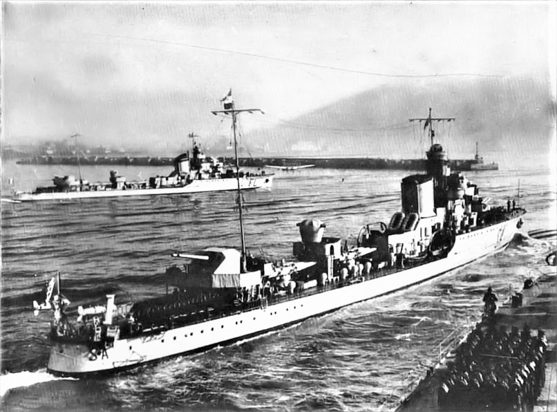 The destroyers Saetta (SA) and Fulmine (FL) in navigation.